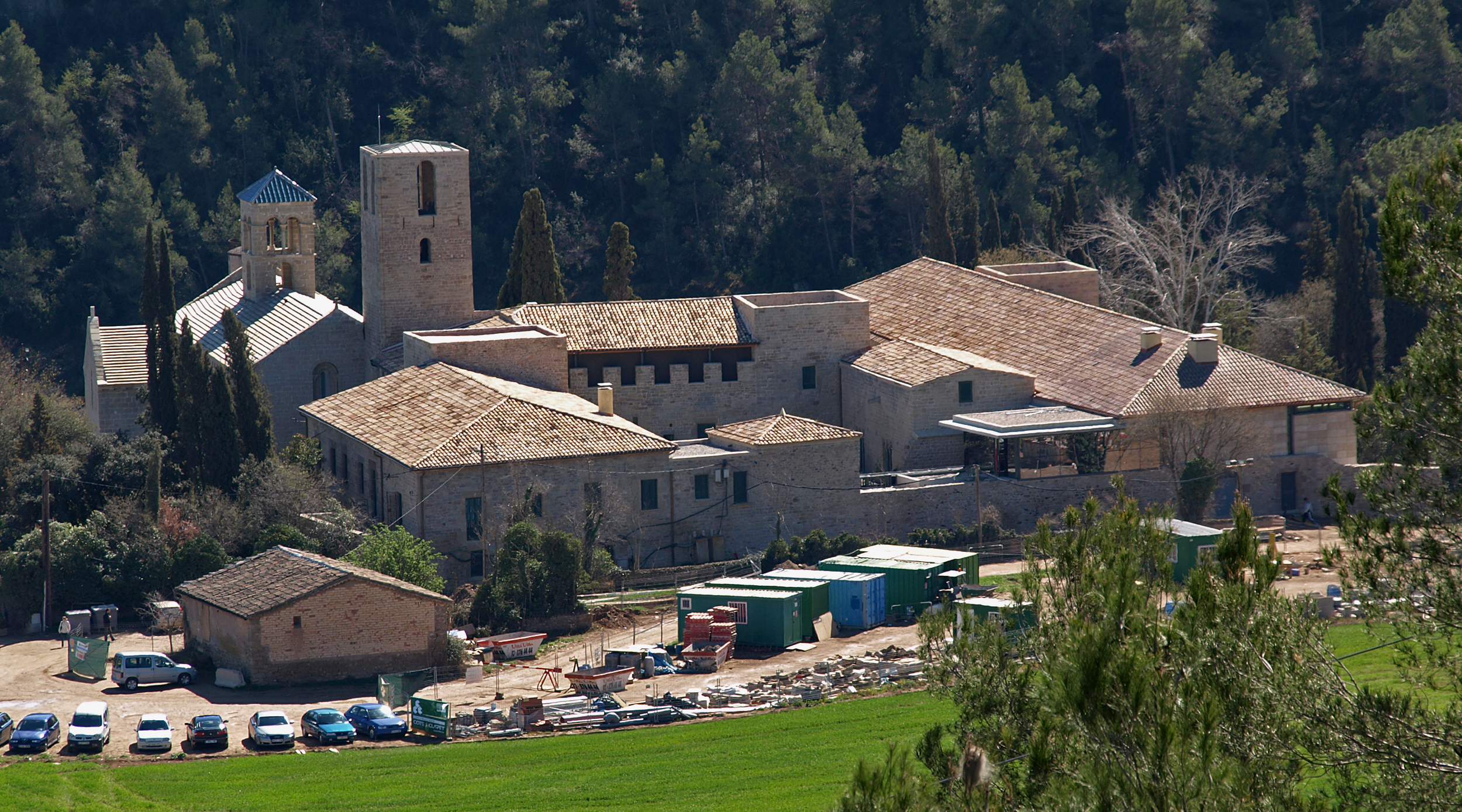 Monastery of Sant Benet de Bages (Bages, España)